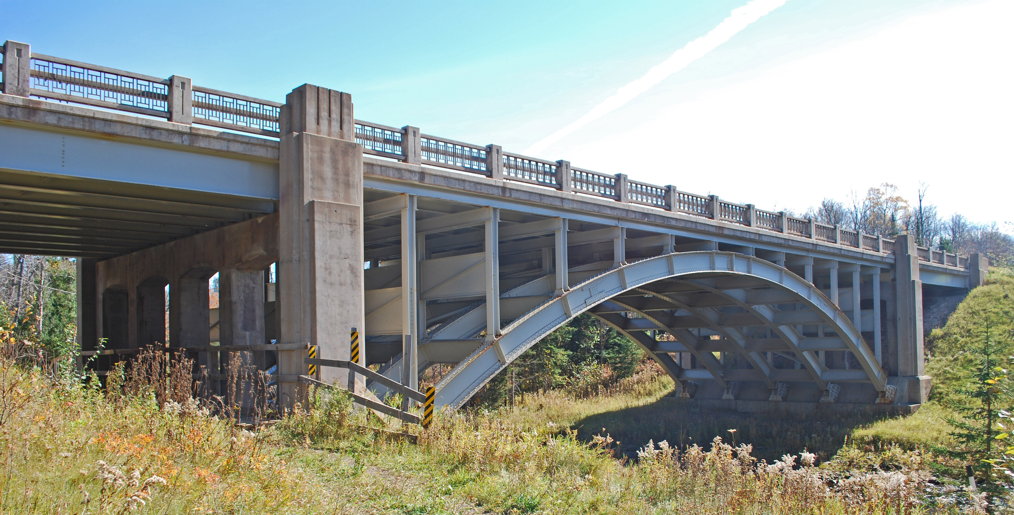 Canyon Falls Bridge, Baraga COunty MI